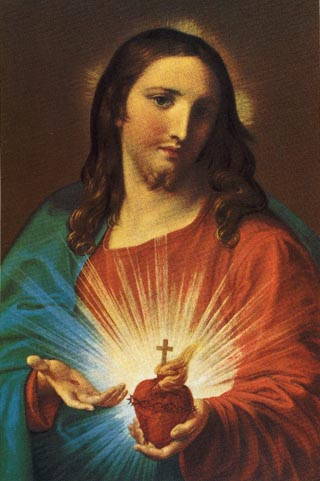 Pompeo Batoni: Sacro cuore di Jesù ("Sacred Heart of Jesus"), painting on the altar in the northern side chapel of Il Gesù in Rome, 1767